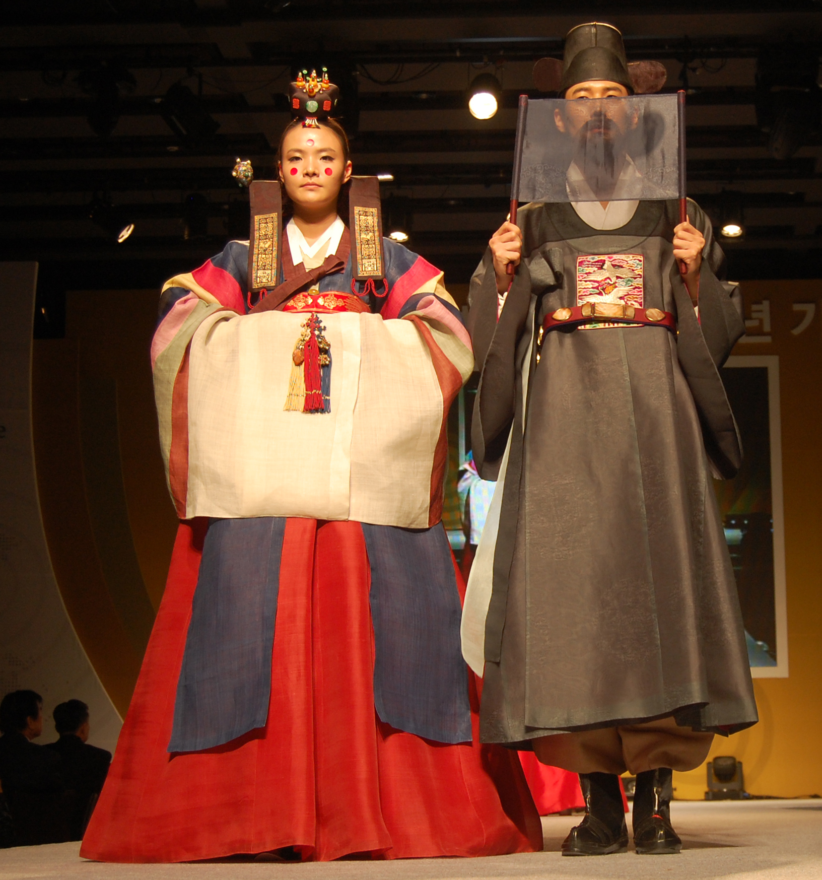 Leading Hanbok designer Lee Young-hee presents modern interpretations of traditional designs in a Hanbok fashion show to celebrate the Korean Culture and Information Service (KOCIS)'s 40-year anniversary on Dec. 19, 2011